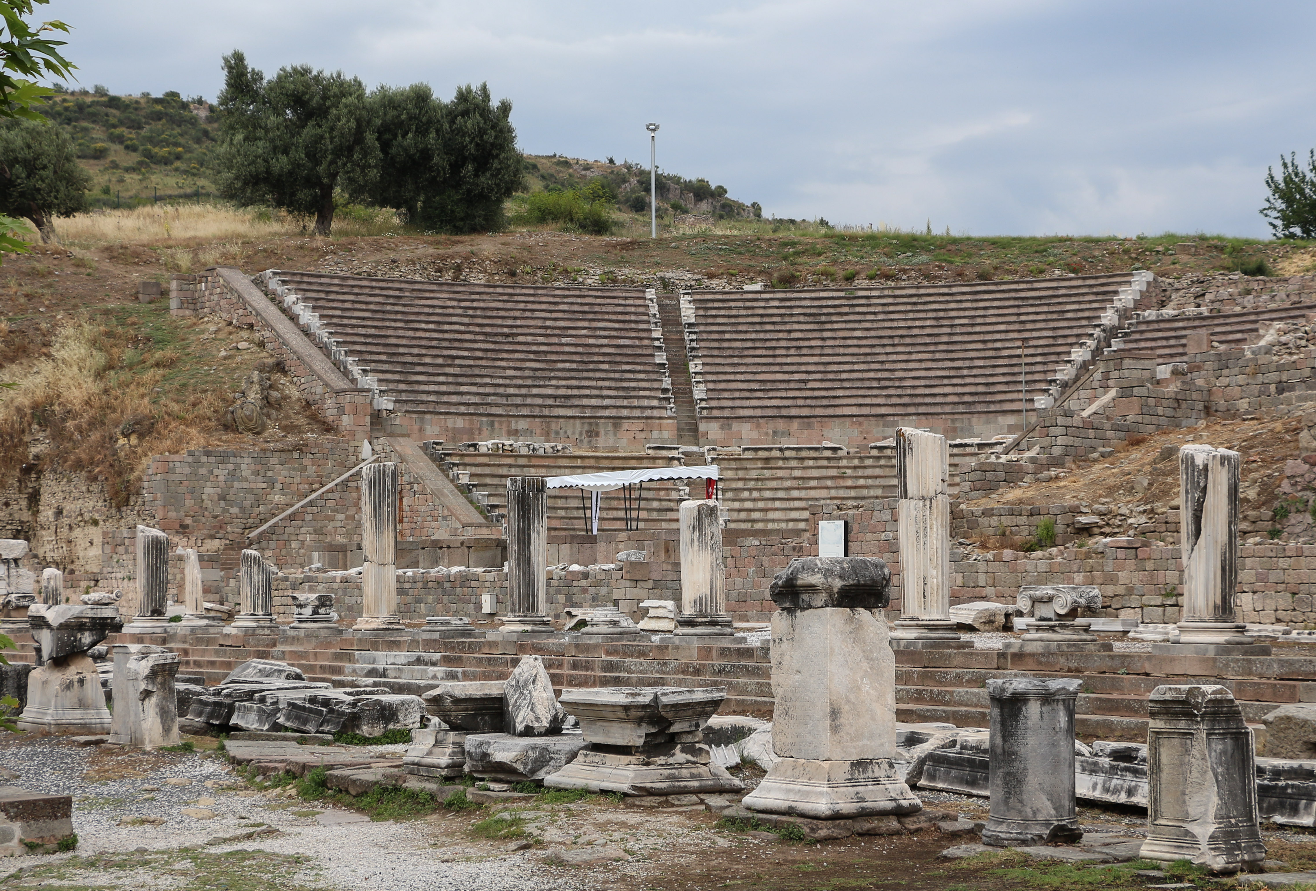 The Roman theatre at Pergamon Asclepium, Turkey